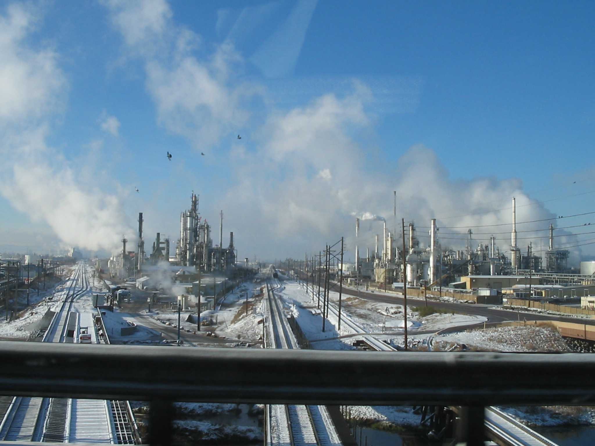 Commerce City: This is east of Denver, the industrial suburb of Denver.